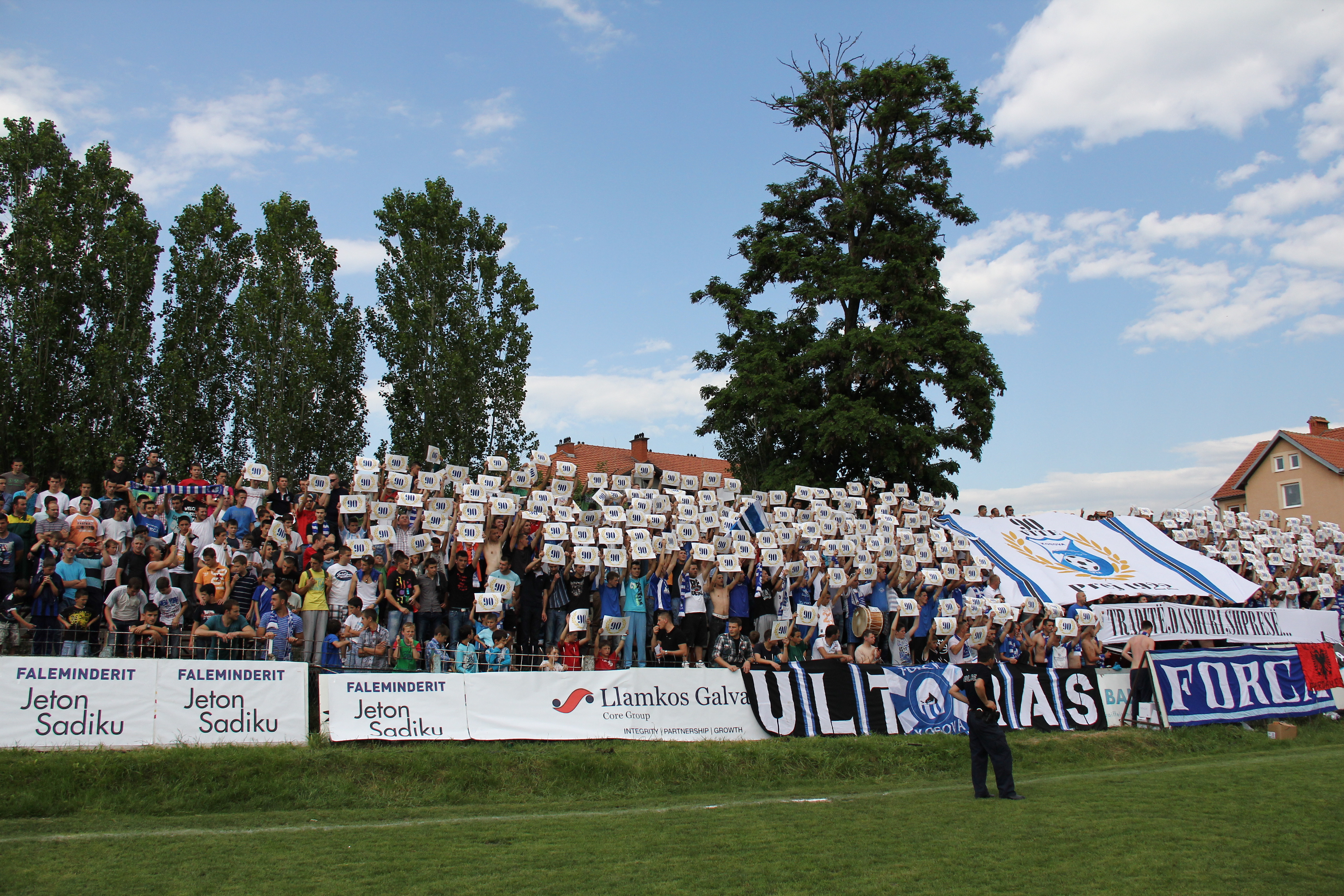 Vushtrri